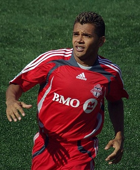 Guevara while playing for Toronto FC against Dallas.